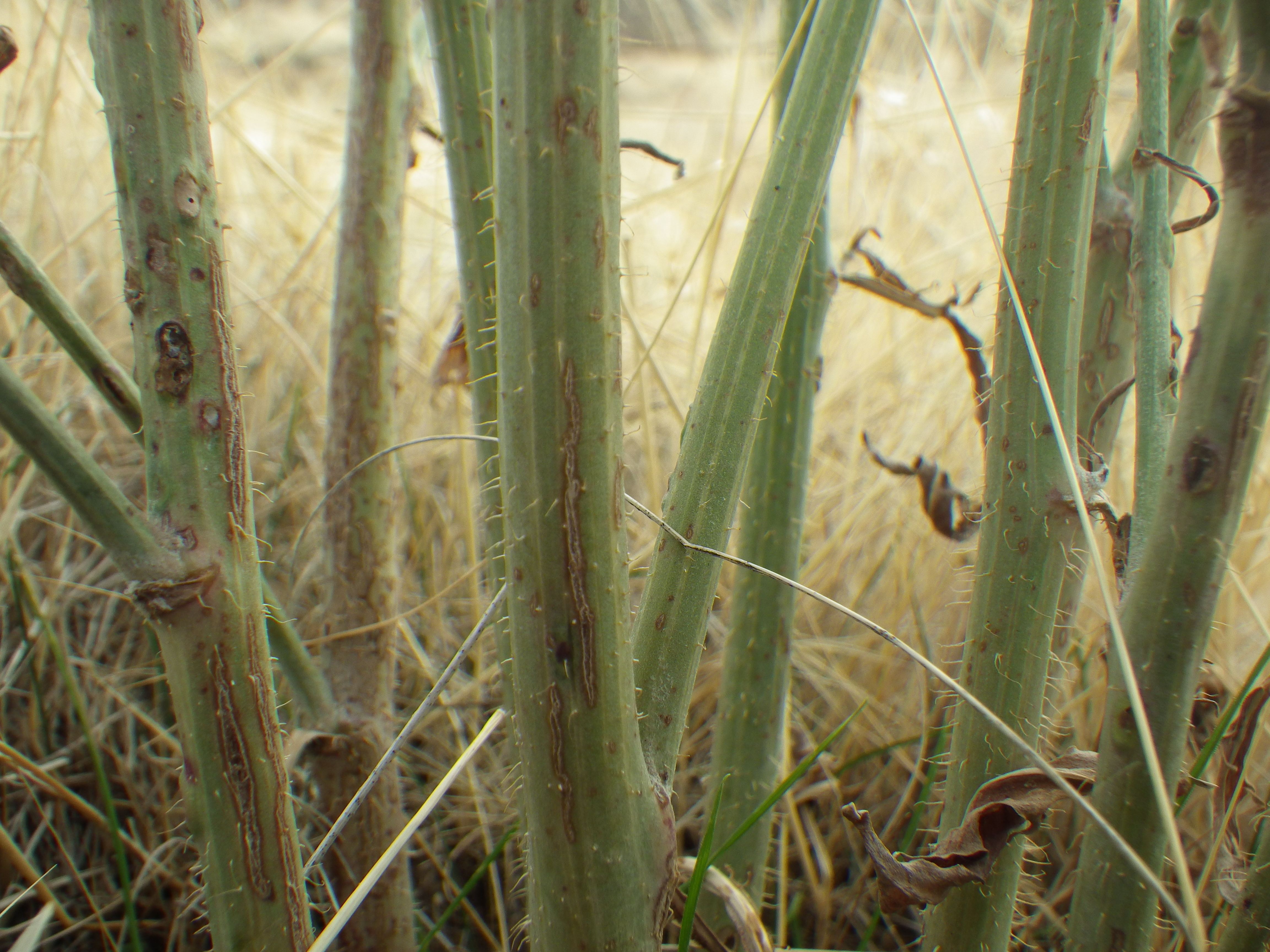 The basal stems with widely scattered hispid hairs are distinctive.